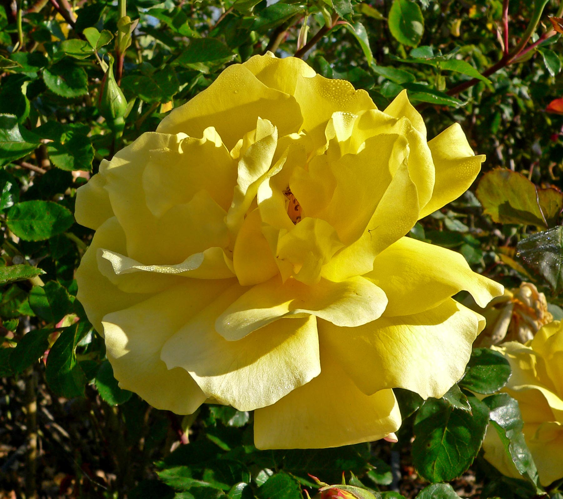 Photo of Rosa 'Golden Scepter' at the San Jose Heritage Rose Garden